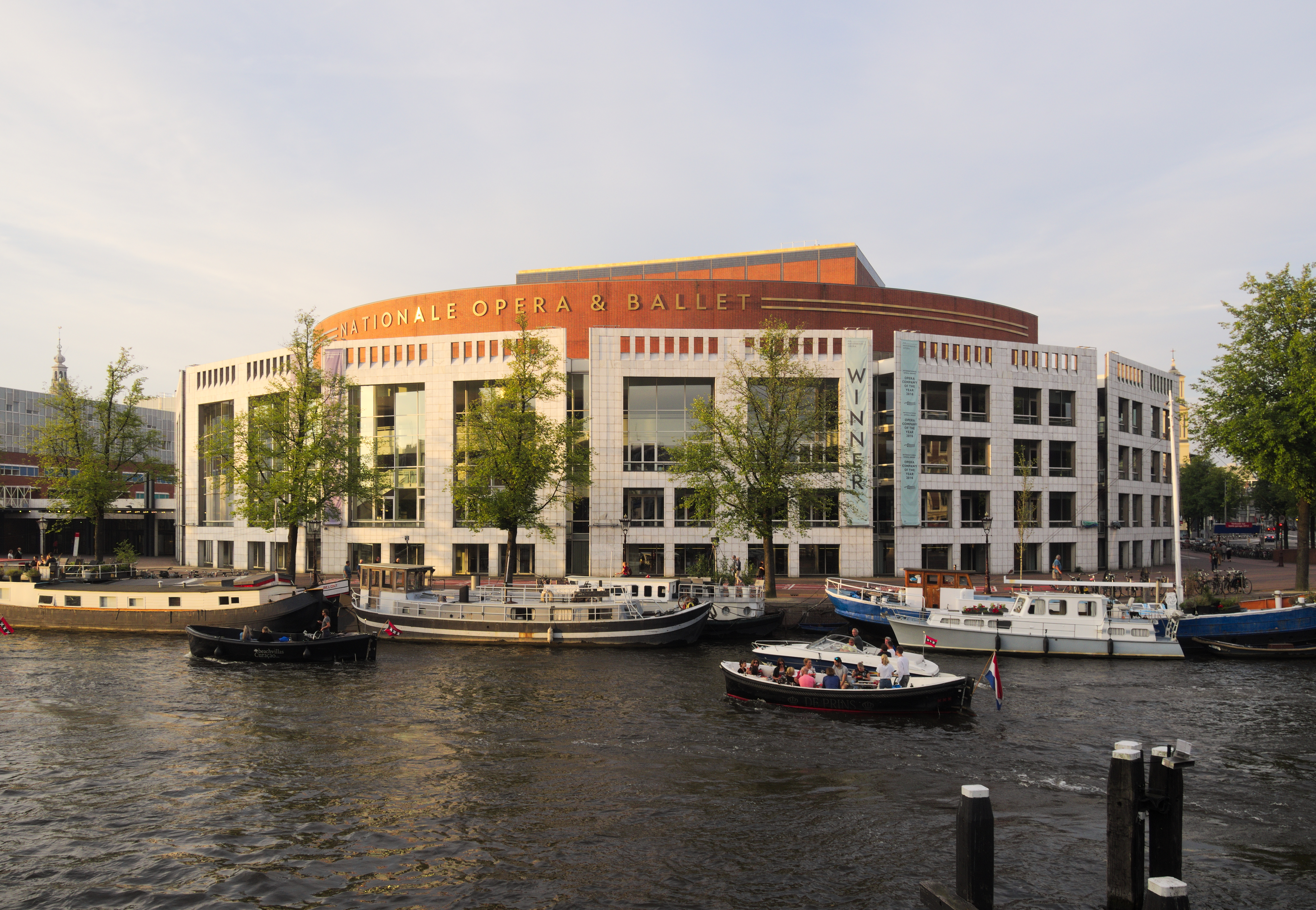 Stopera as seen from across Amstel.